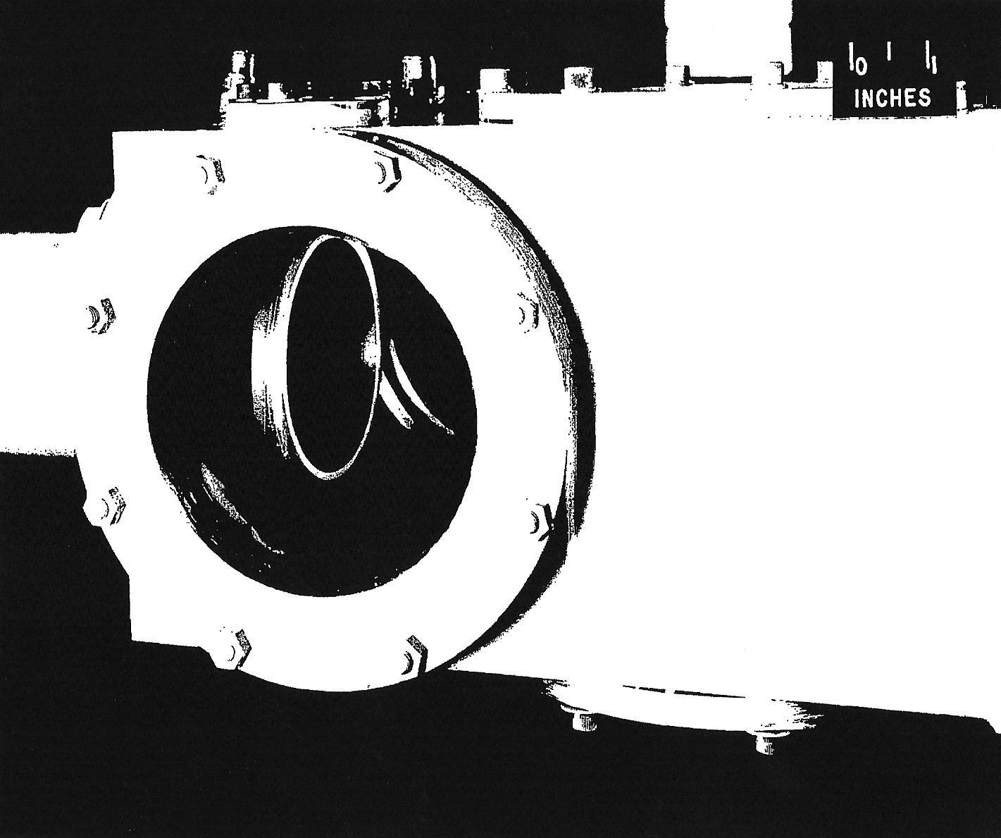 (1965-L-02186): This view shows the Pilot Model Expansion Tube’s test section. Note the scale at upper right for a sense of size.